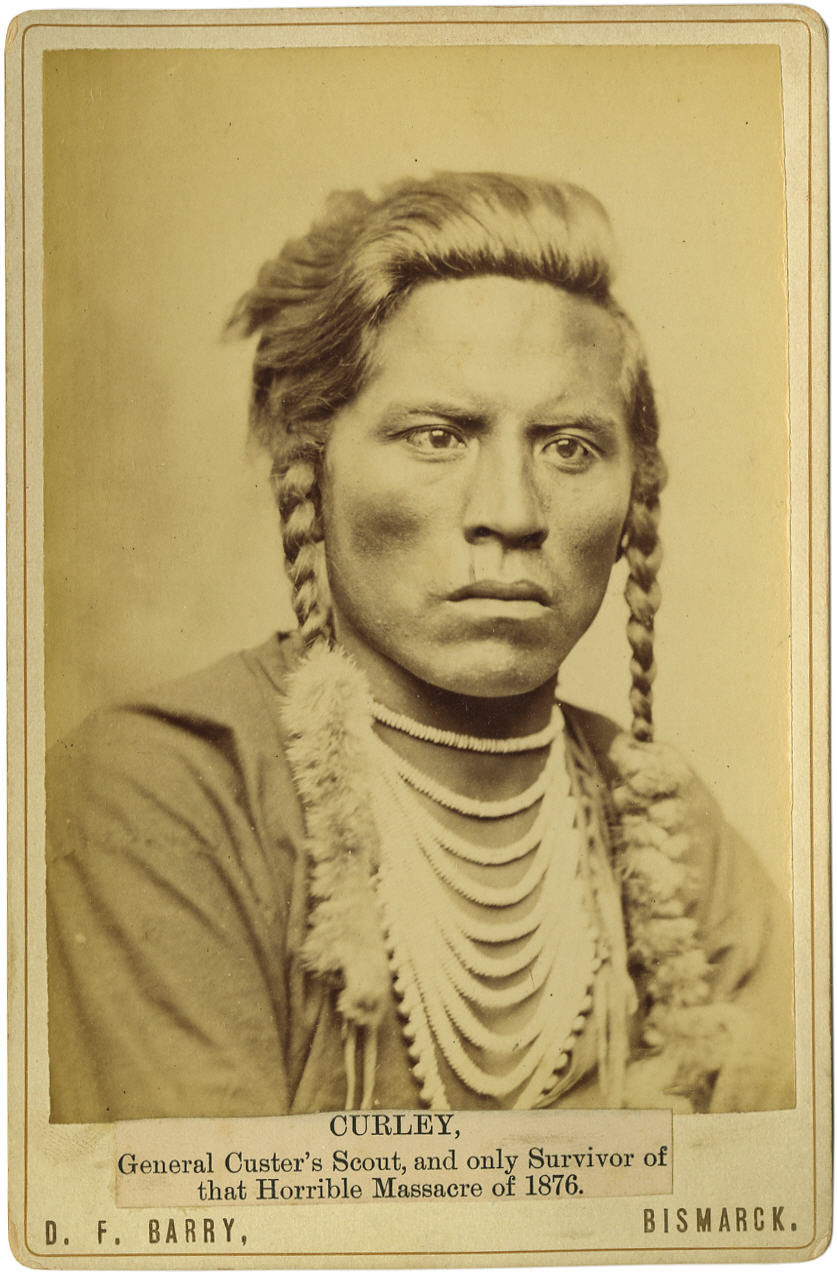 Cabinet Card - Studio portrait of Curly